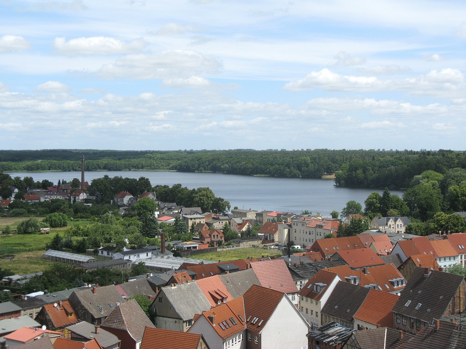 Lake Wockersee in Parchim, Mecklenburg-Vorpommern, Germany (view from tower of church St. Georg)